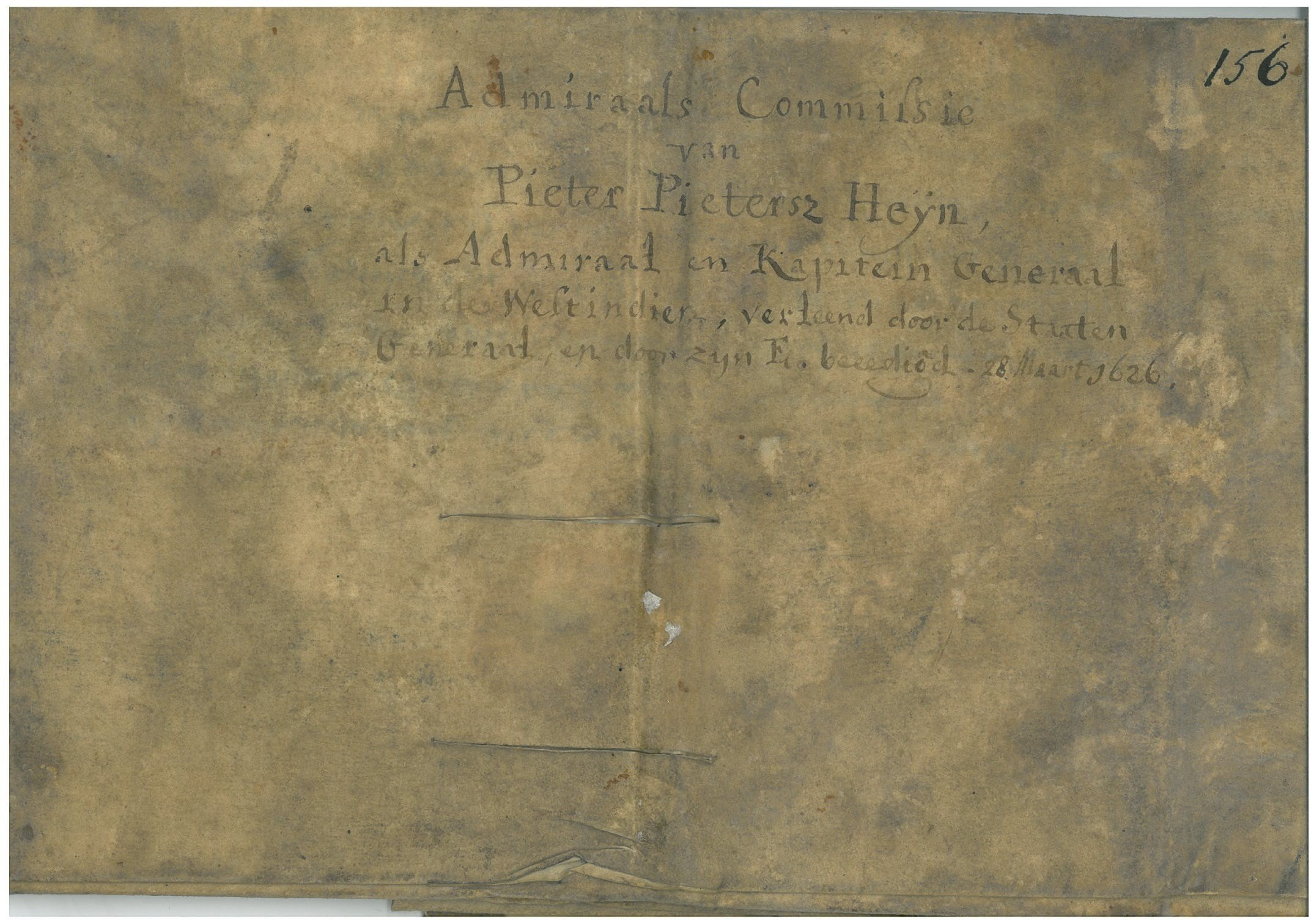 Commission Letter of the States-General to Piet Heyn as admiral and captain-general "to the limits" of the West India Company